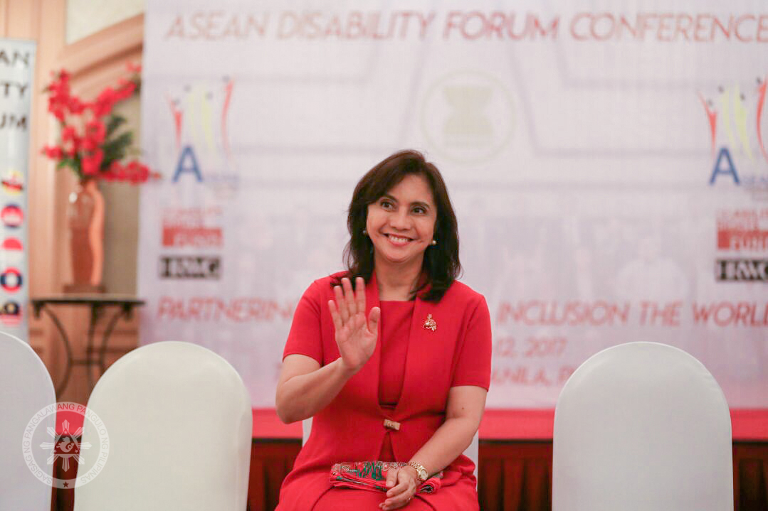 At 9:15 am, the Vice President attended the ASEAN Disability Forum (ADF) Conference in Heritage Hotel, Manila. The ADF is a network of Disabled People’s Organizations (DPOs) in the ASEAN region. It aims to raise awareness, promote the rights of persons with disabilities (PWDs), and work towards the development of disability inclusive policies in ASEAN countries. The conference also served as an avenue for representatives of various stakeholders to raise issues concerning PWDs and strategize policies that will address them.